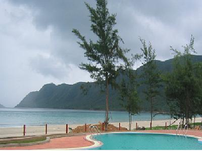 Photo of Côn Lôn, main island of Côn Đảo Archipelago, off the Southern coast of Vietnam